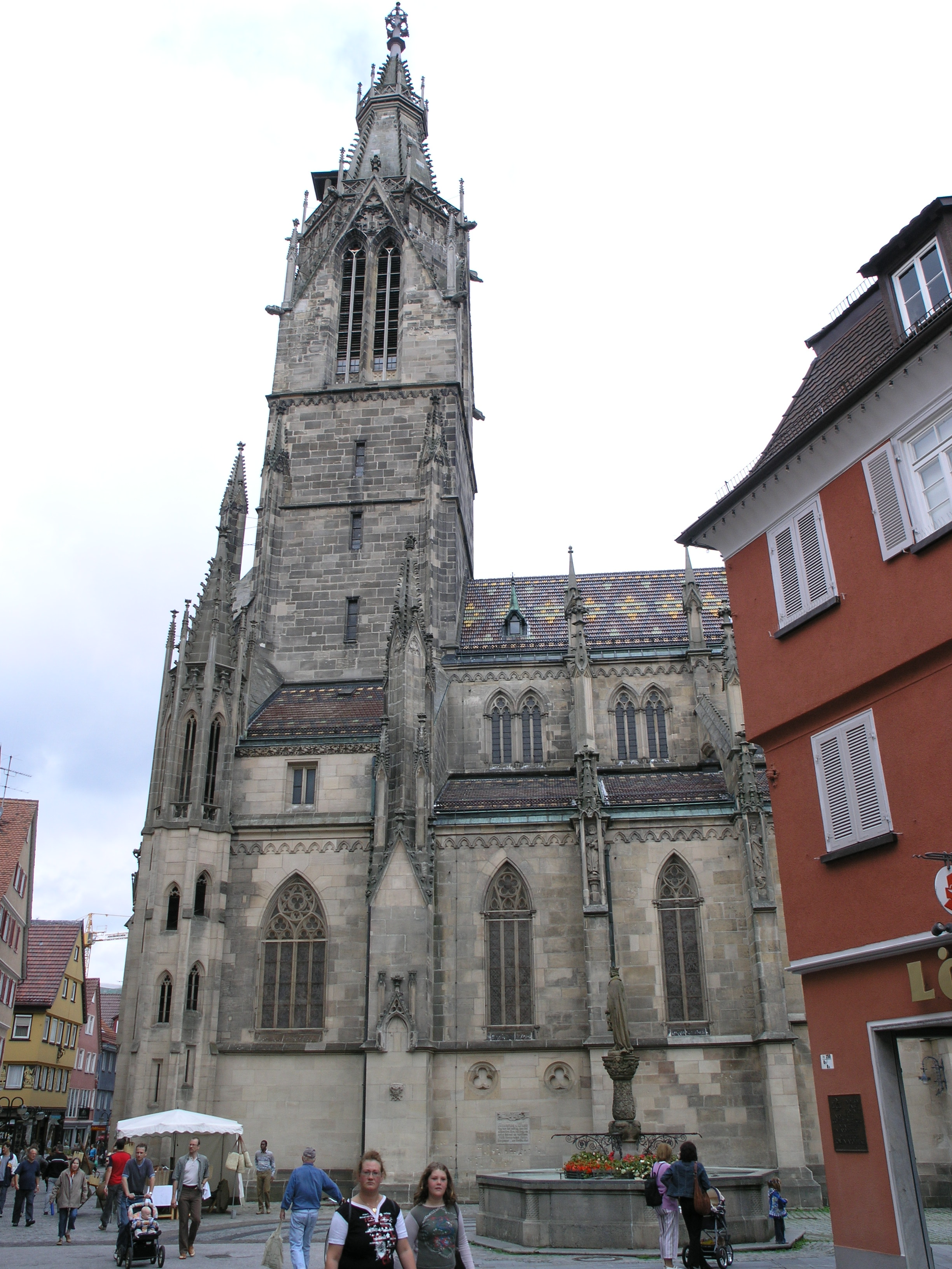 Church of Reutlingen